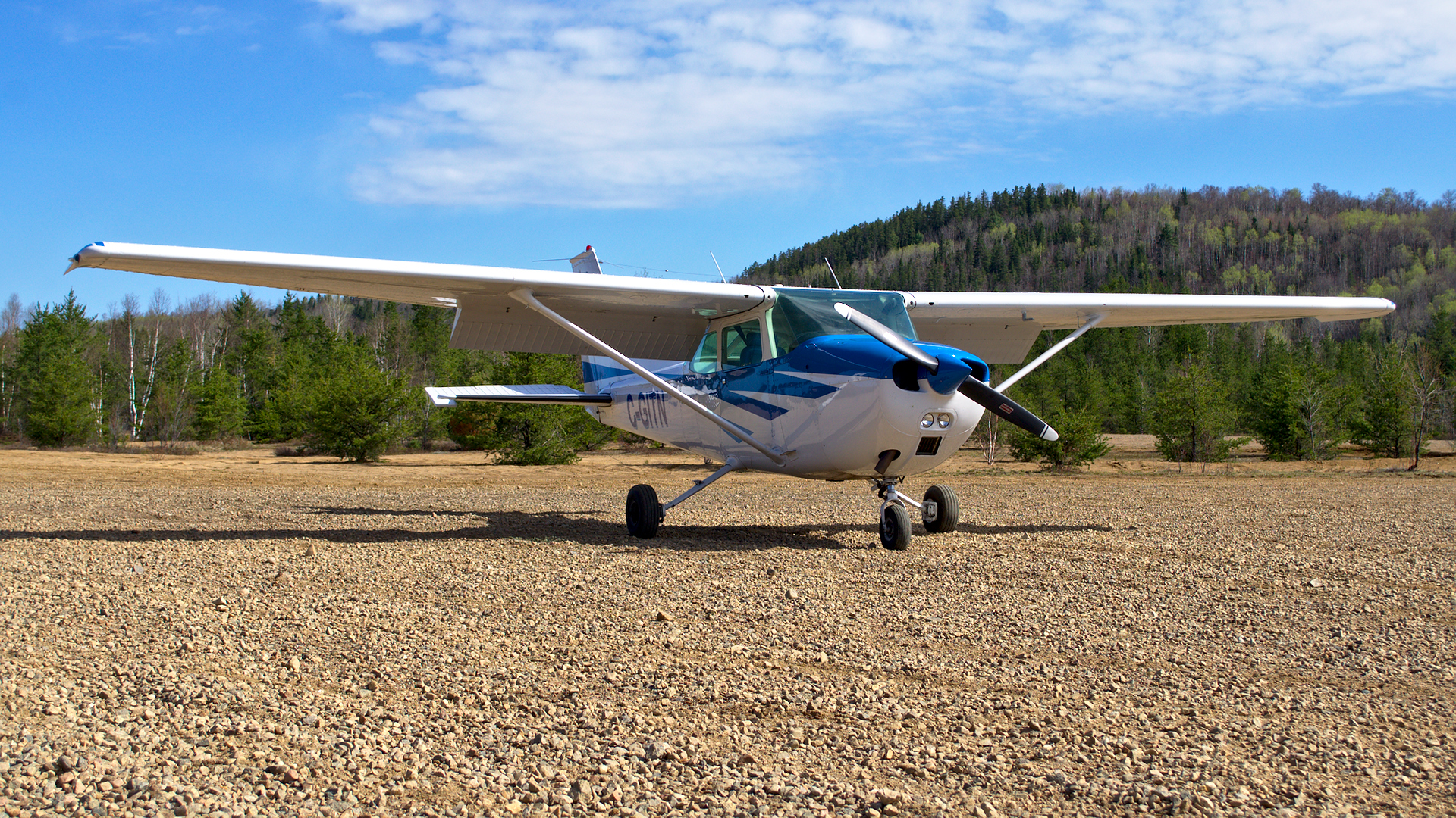 Cessna 172 on ground at St-Michel-des-Saints